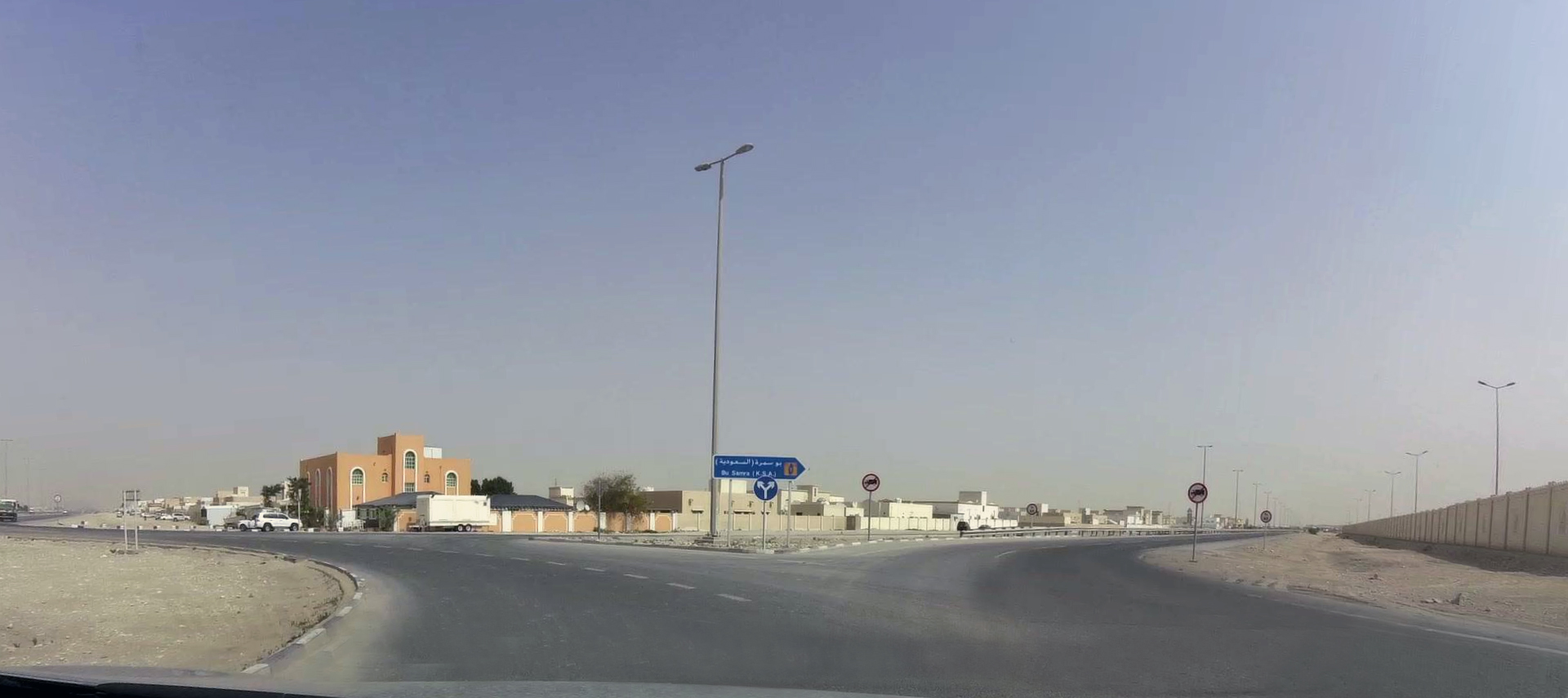 View of Al Sailiya Roundabout in Al Sailiya district, Al Rayyan Municipality, Qatar.